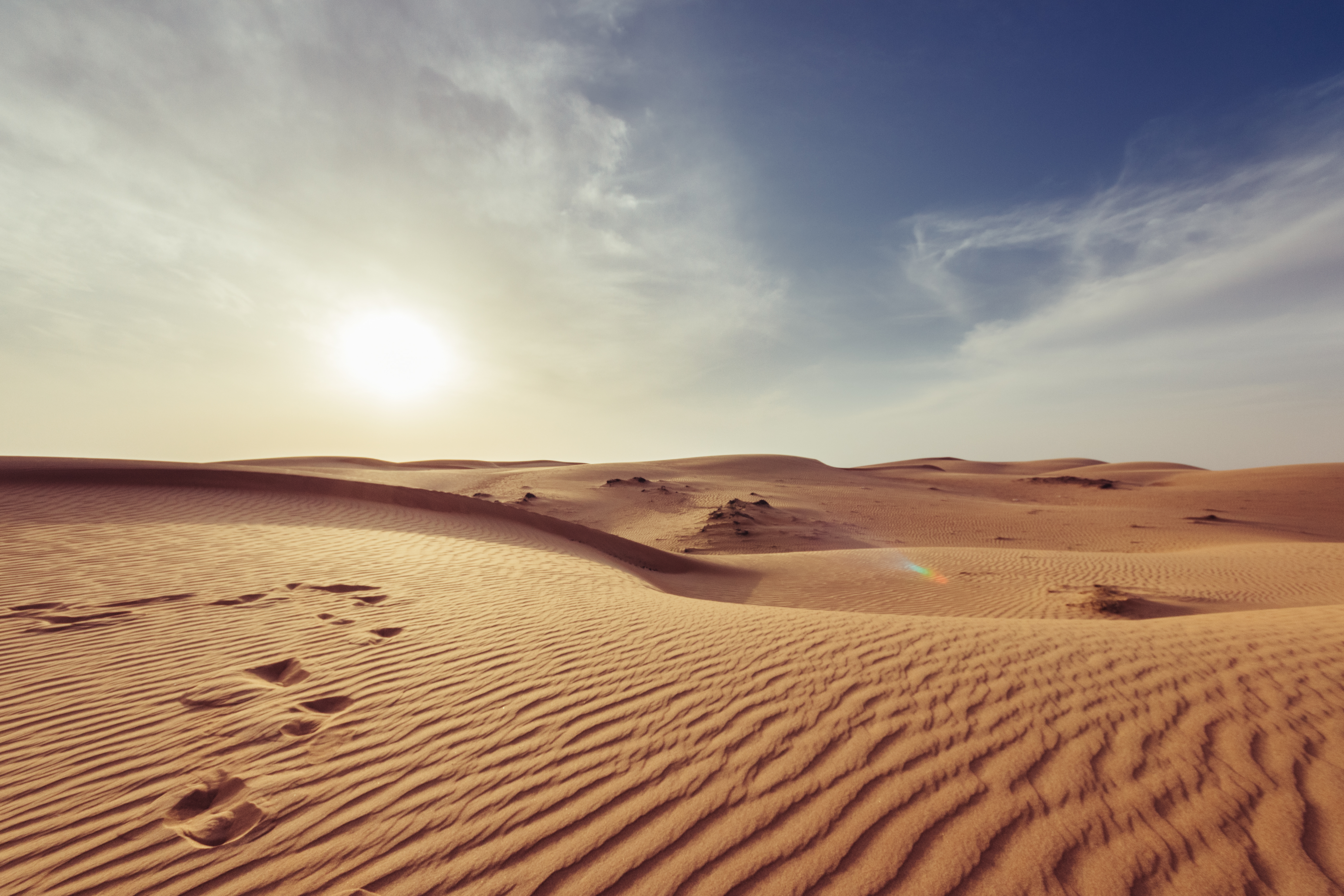 Muscat, Oman